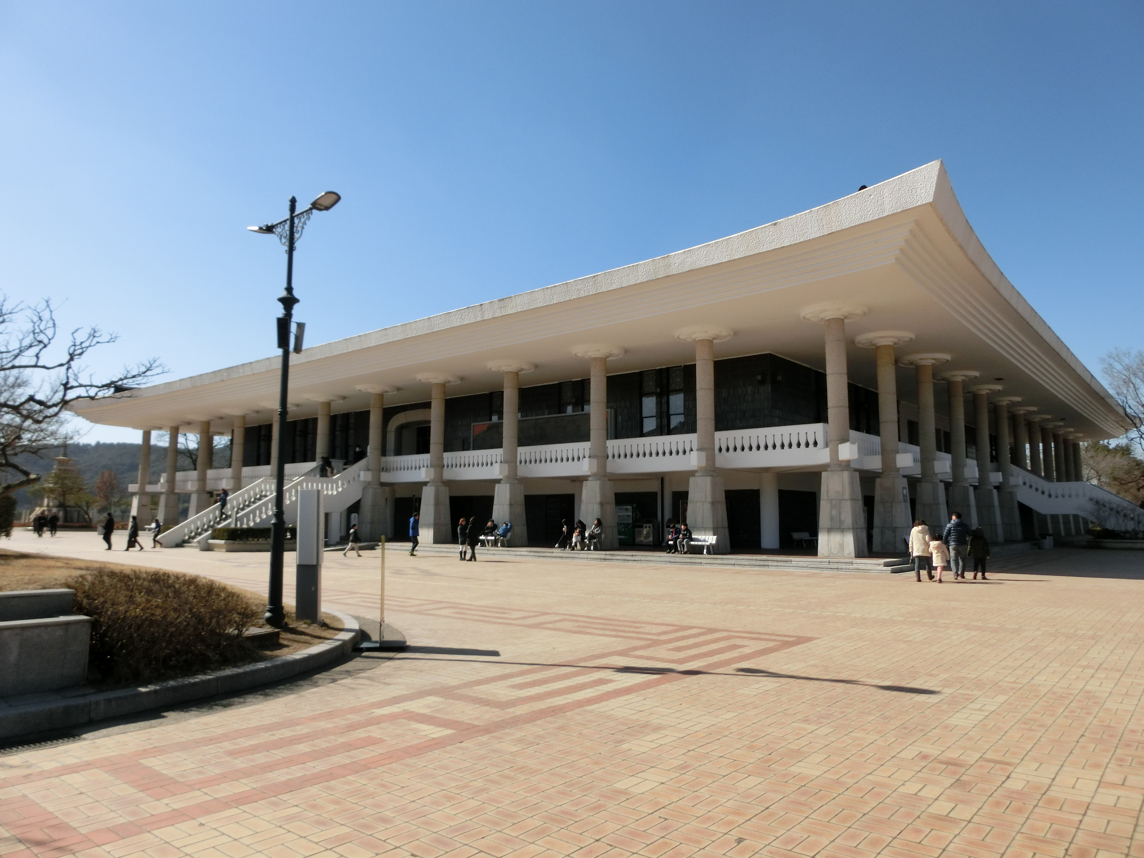 Gyeongju National Museum Silla History Gallery